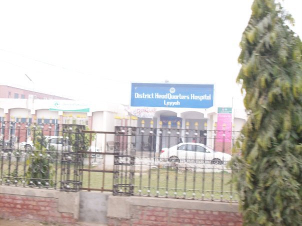 layyah district hospital in the area of collage road